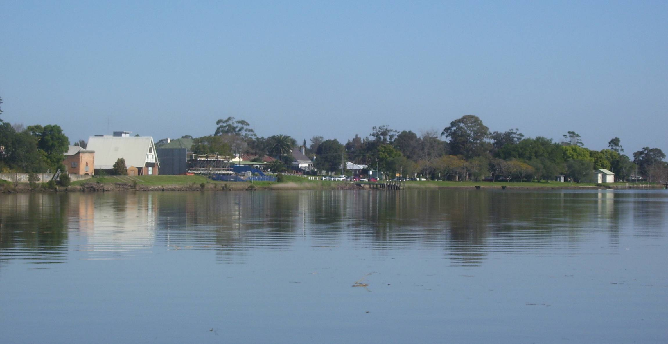 Raymond Terrace,New South Wales. View of the town foreshore on the Hunter River from under the Fitzgerald bridge on the Williams River